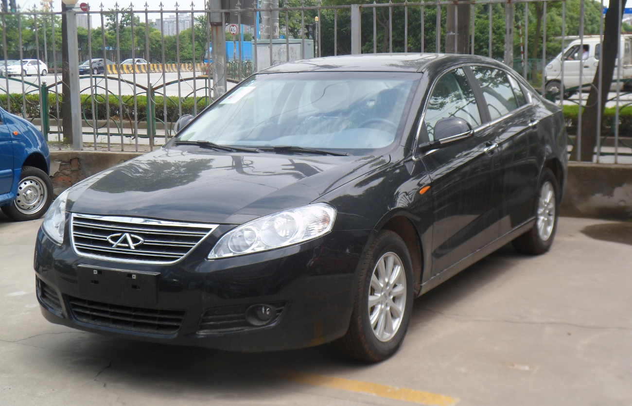 Chery Eastar II photographed in Shanghai, China.